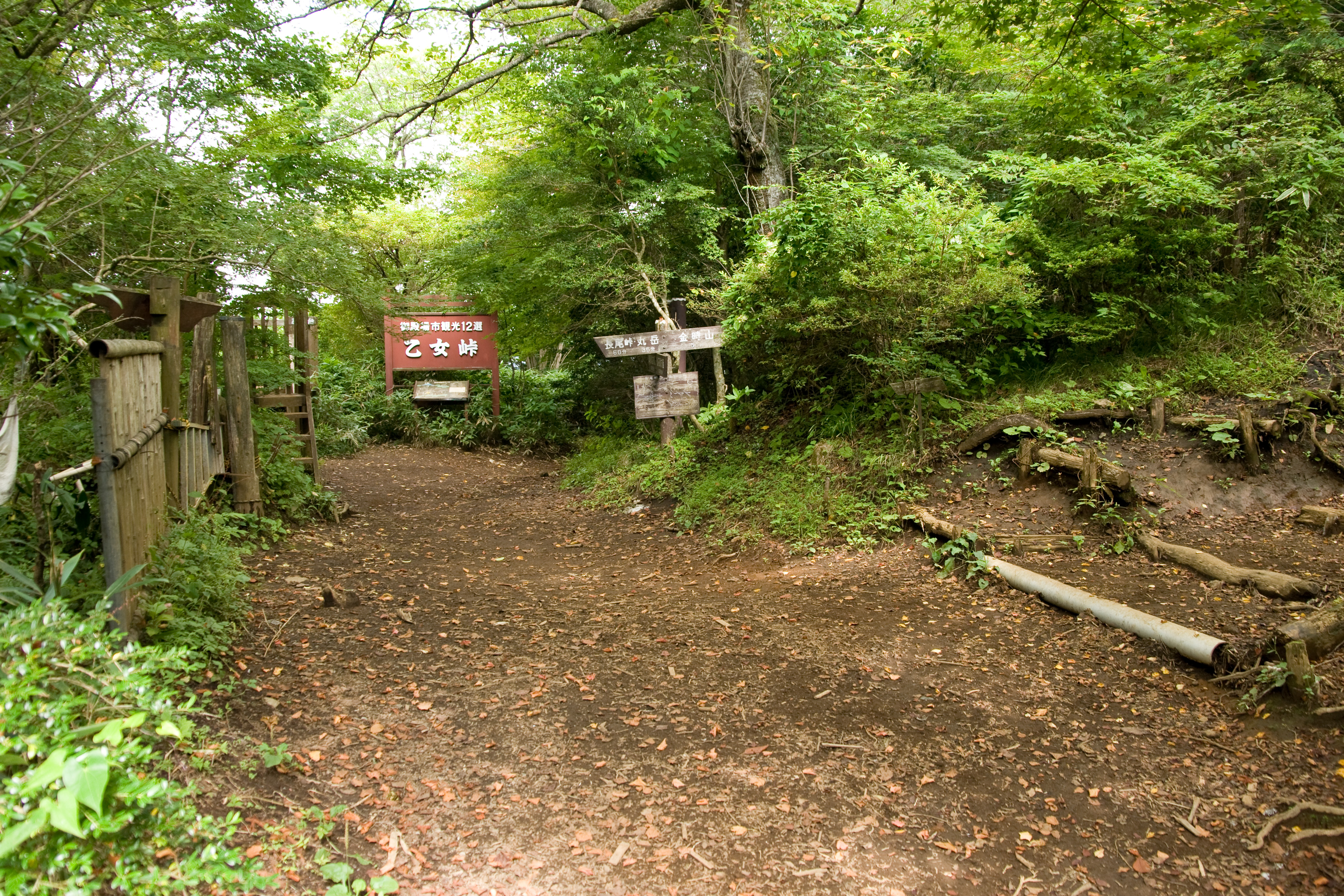 Otome Pass in Hakone volcano, Kanagawa and Shizuoka Prefectures, Japan.